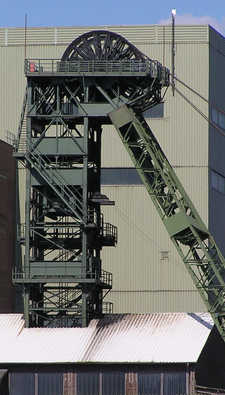 Pit "Schacht 2" of the closed coal mine "Fürst Leopold" near Dorsten, Germany.